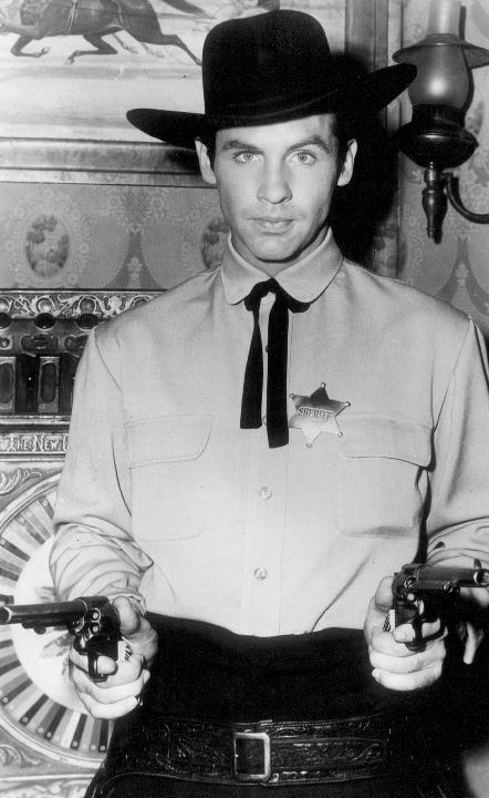 Photo of Pat Conway as Clay Hollister from the television program Tombstone Territory.